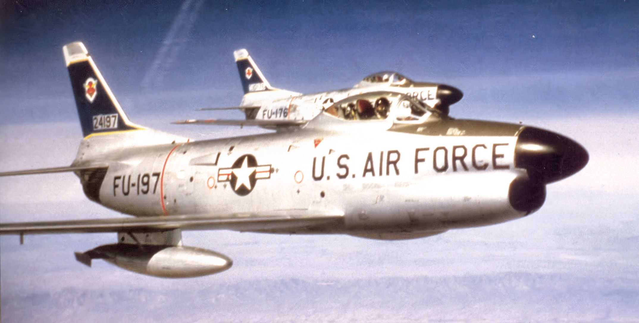 456th Fighter-Interceptor Squadron North American F-86L-45-NA Sabres 28th Air Division, Castle AFB, California, February 1958 Identified Aircraft: 52-4197, 52-4176